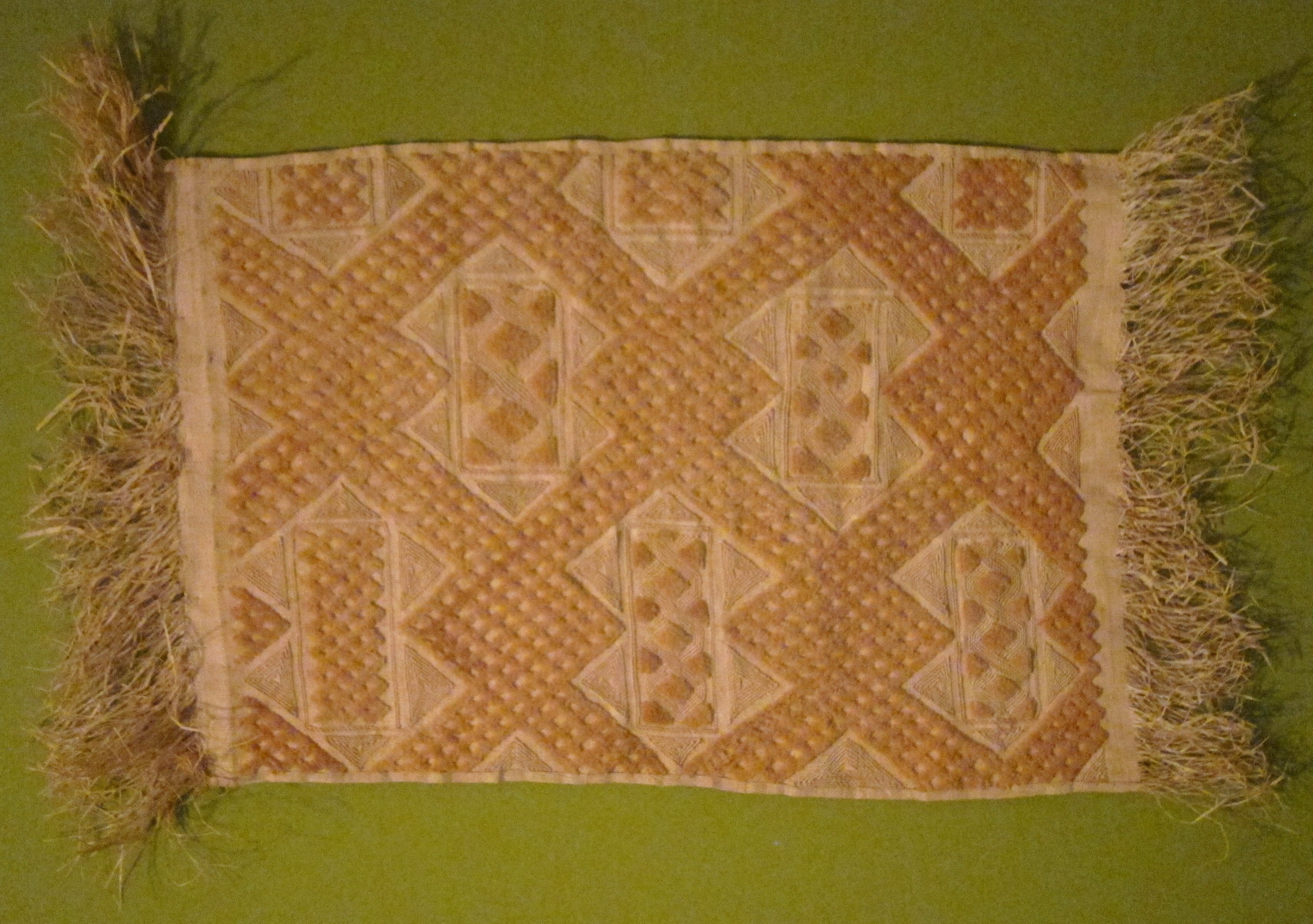 Panel, Democratic Republic of the Congo, Shoowa people, mid-20th century, raffia palm fiber, plain weave, and embroidery, Honolulu Museum of Art